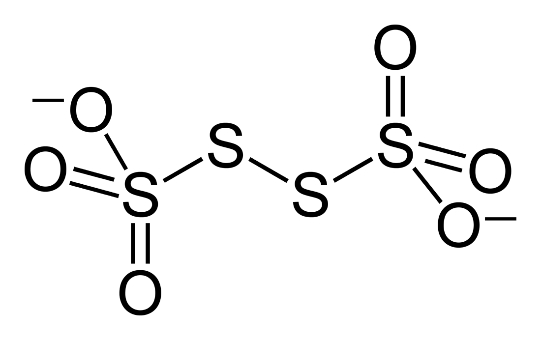 Tetrathionate ion